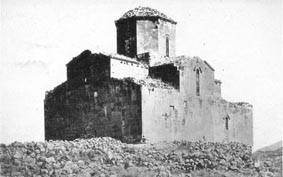 The 7th century Armenian Cathedral of Mren in historical Armenia (now eastern Turkey) near the border with the Republic of Armenia.